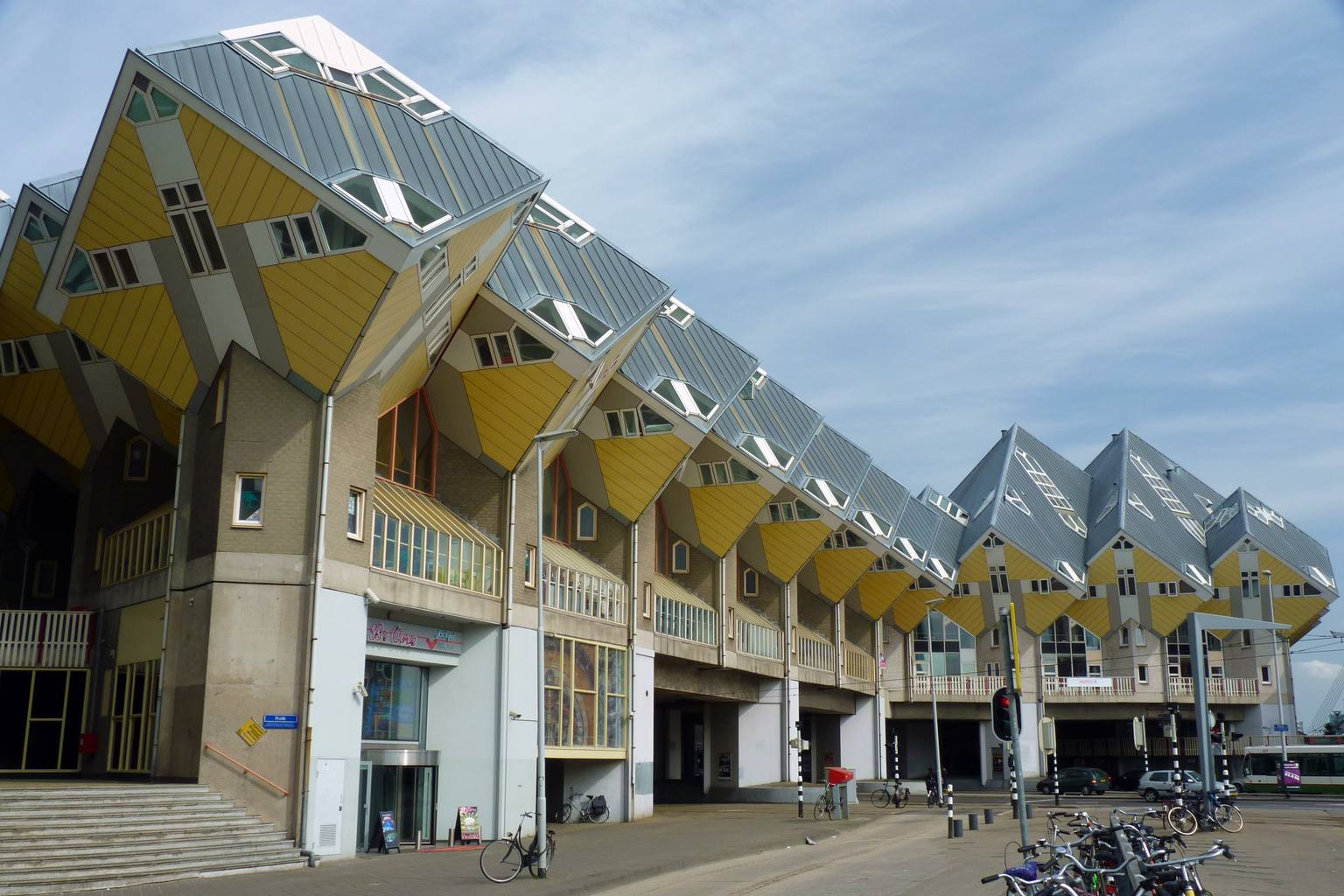 The Cube Houses in Rotterdam, The Netherlands viewed from Blaak Subway Station.